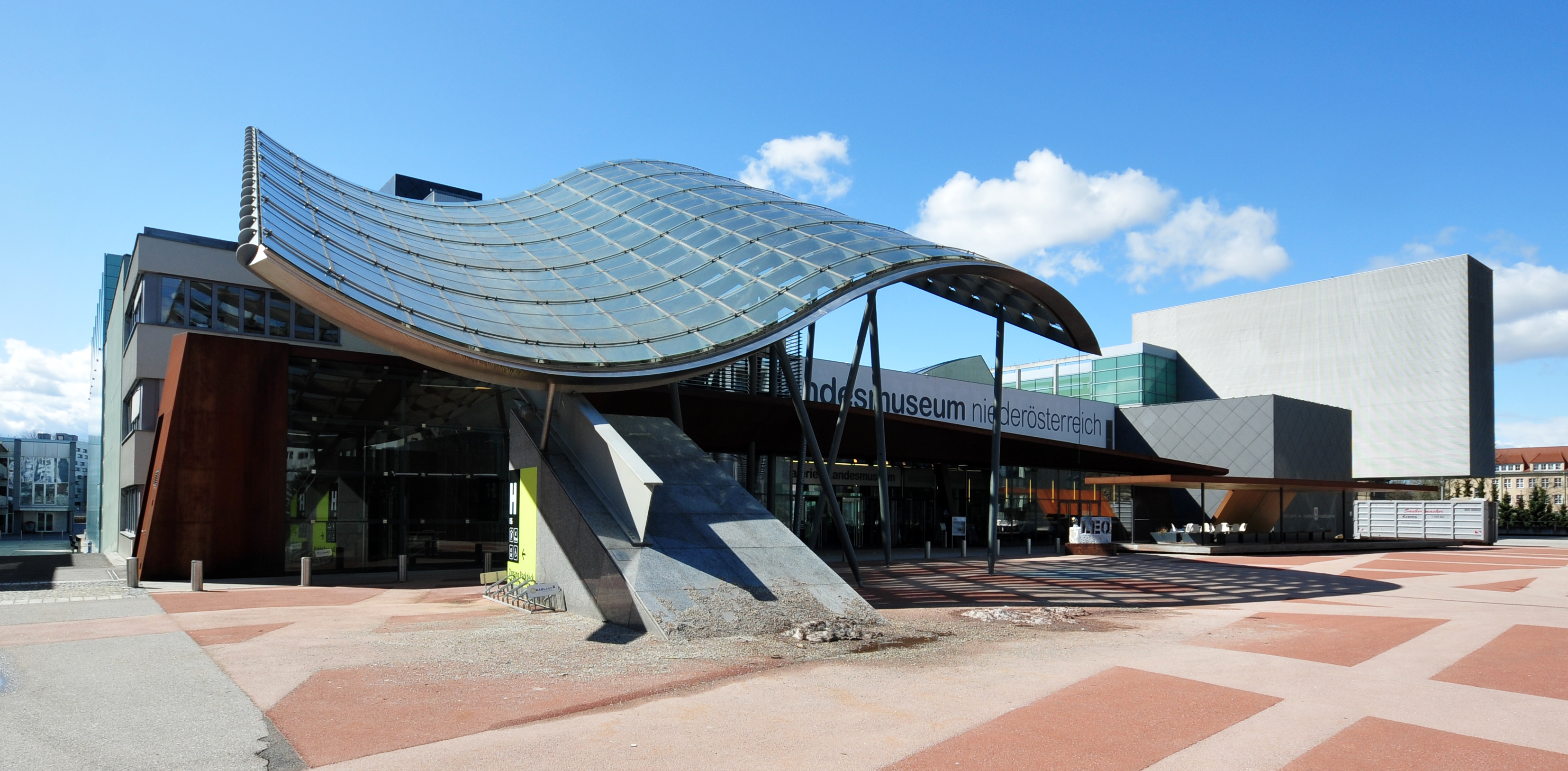 St. Pölten, Austria, Landhausviertel Fotowanderung St. Pölten 13. April 2013 in St. Pölten, Niederösterreich 50mm • Allgemeines • Bahnhof • Domplatz • Fahrräder • Landhausviertel • Rathausplatz